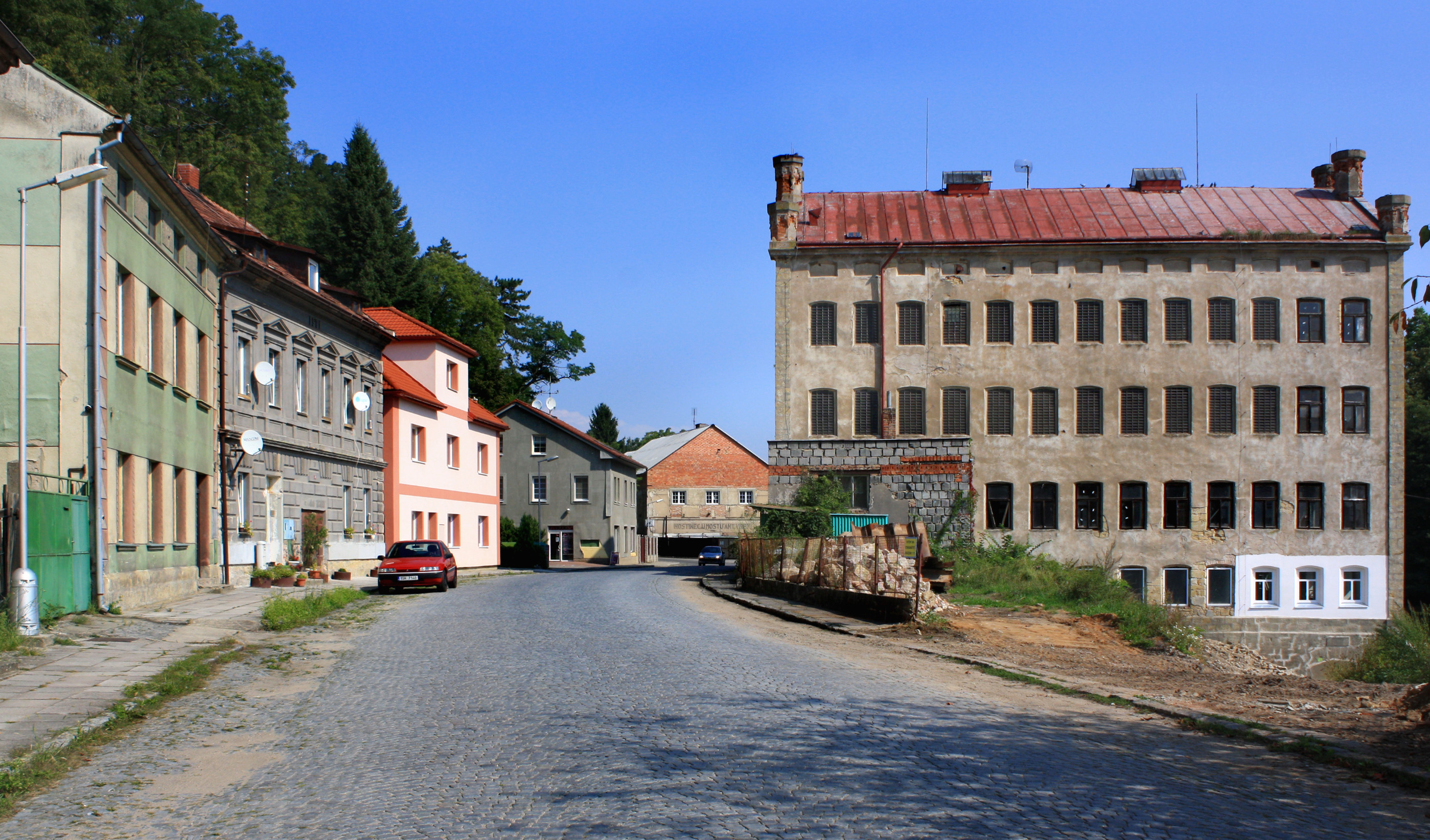 Local street in Krnsko, Czech Republic